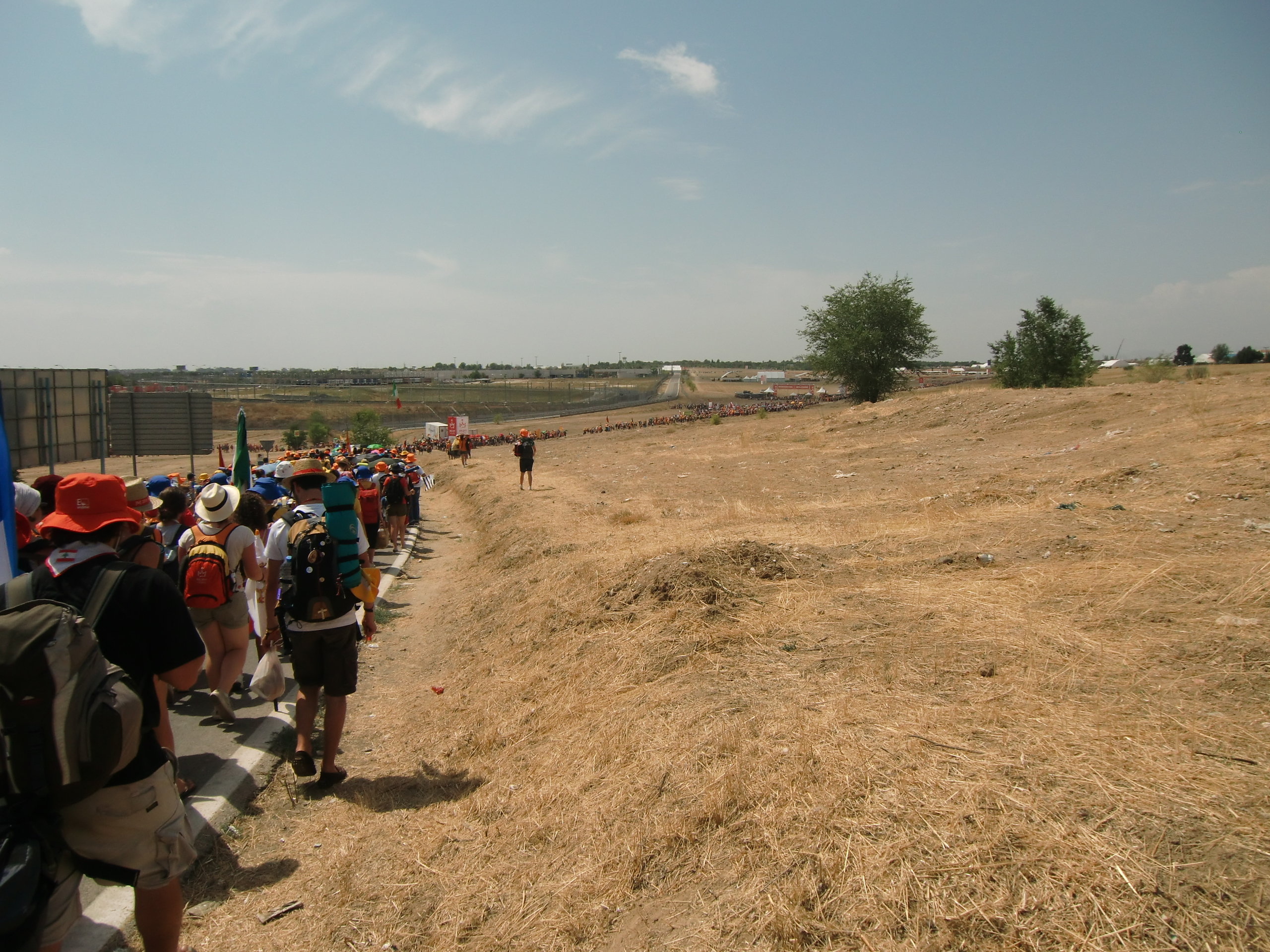 Last part of the walk to gate 3 of Cuatro Vientos where the final mass of World Youth Day 2011 was held.